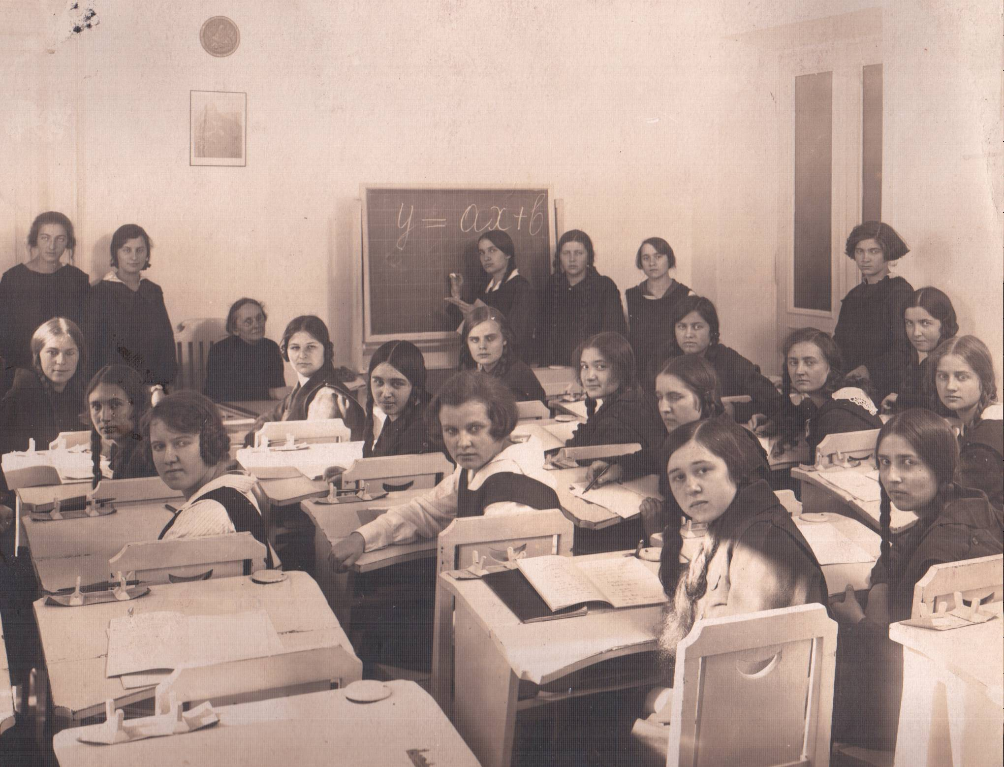 School of Rural Street in Warsaw, classroom